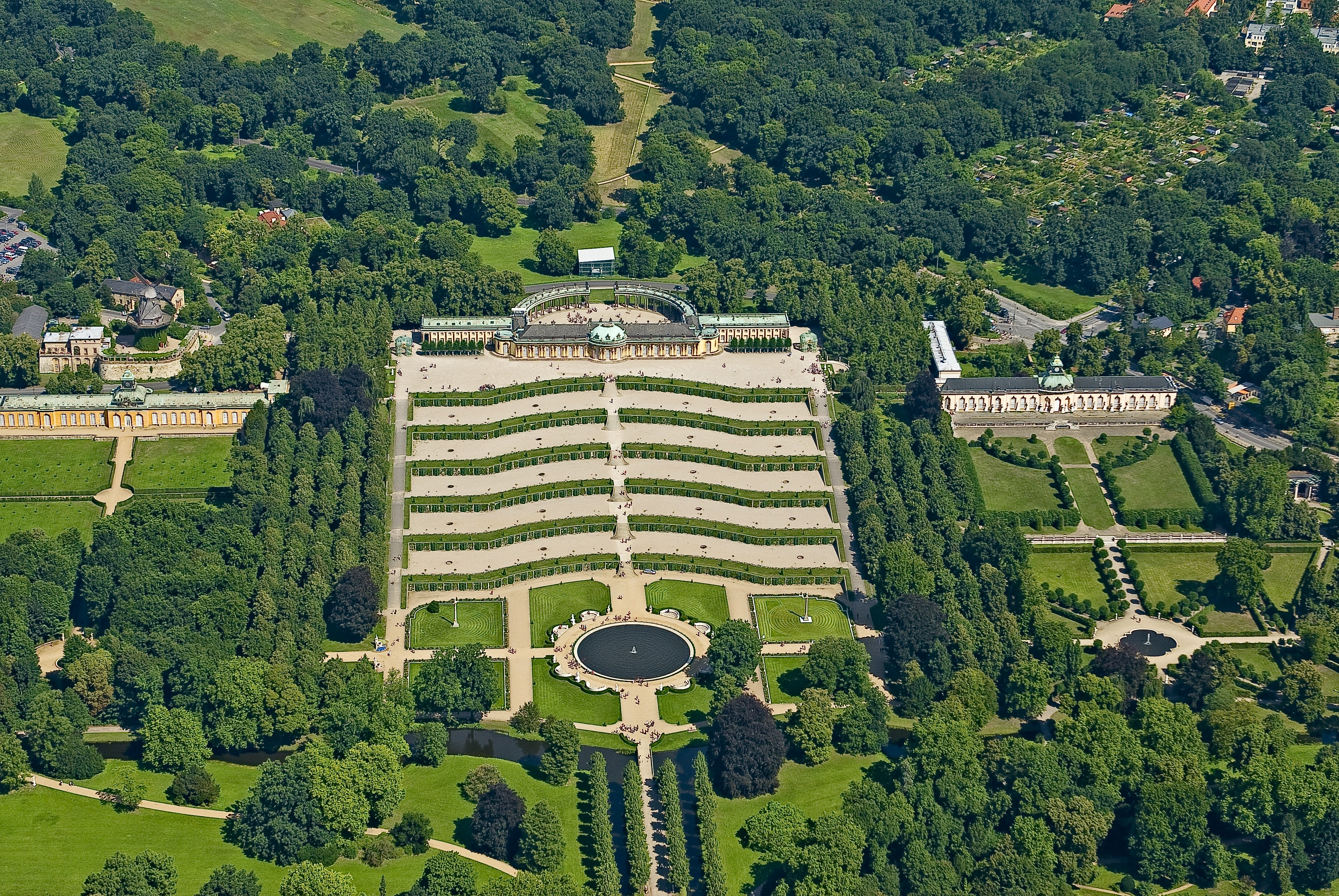 Sanssouci aerial, 2008